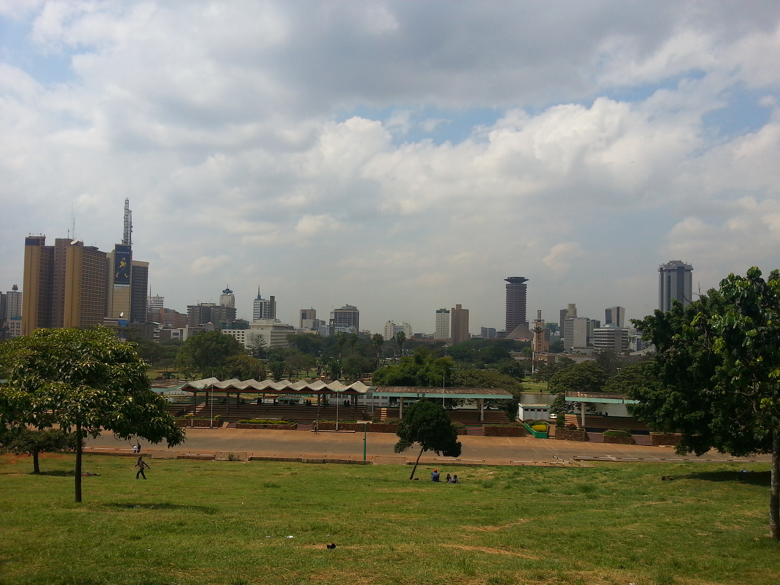 This is a photo of Nairobi city taken from Uhuru park showing most of the major buildings in the city.